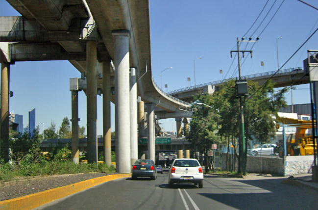 Distribuidor Vial, Mexico DF